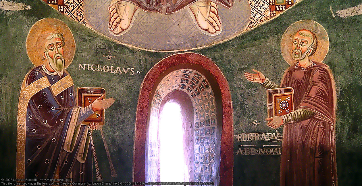 The Saints Eldradus and Nicholas, painting from the abbey of Novalesa, Italy (11th century)